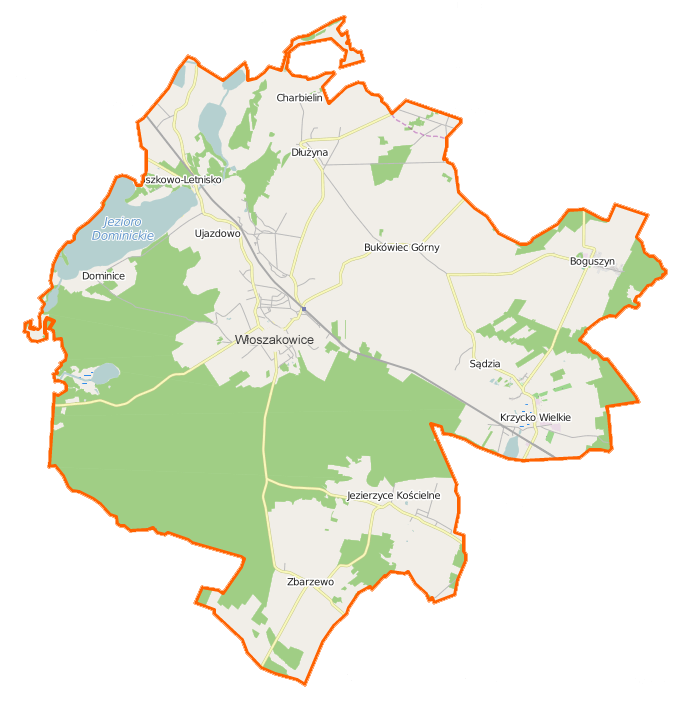 Map of Gmina Włoszakowice, Poland This map of Włoszakowice (gmina) was created from OpenStreetMap project data, collected by the community. This map may be incomplete, and may contain errors. Don't rely solely on it for navigation. Border coordinates51.998916.2683←↕→16.503551.8477